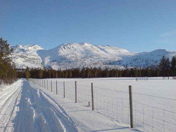 Winter Mountain